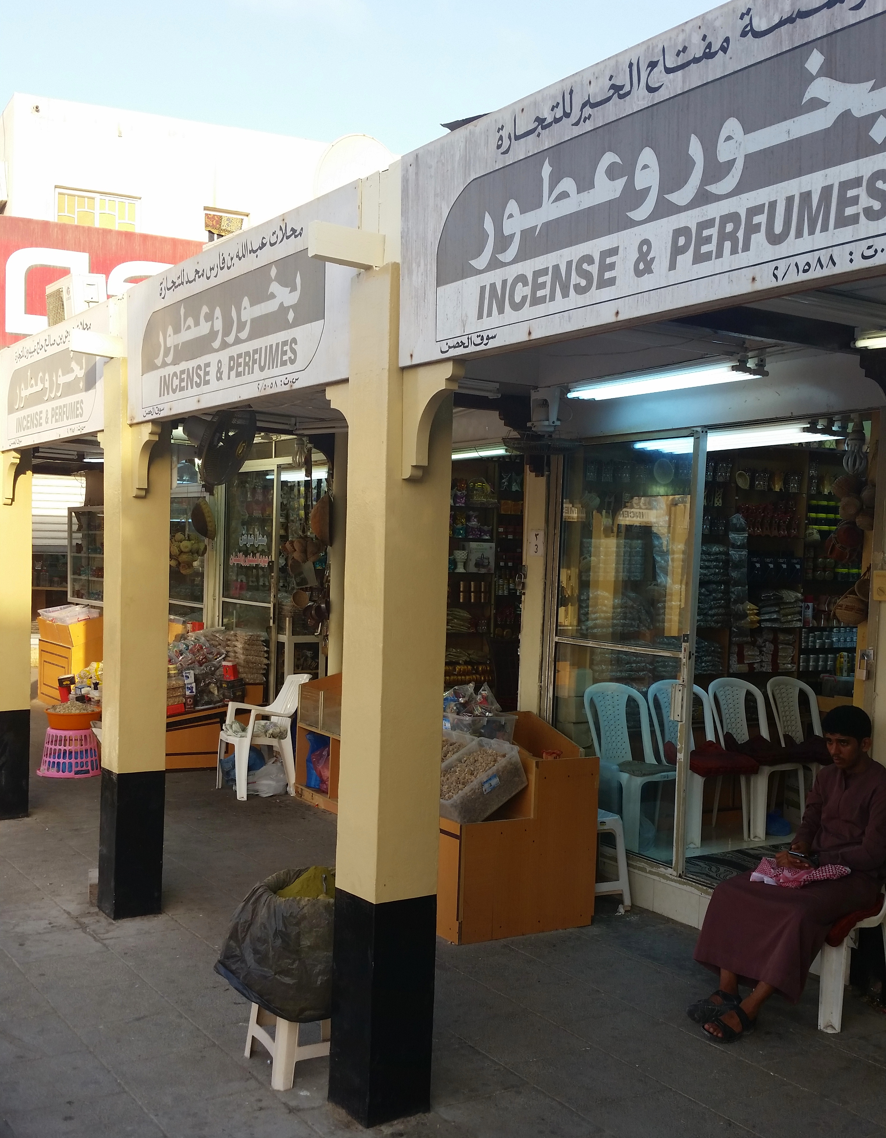 Alhusn-market-4